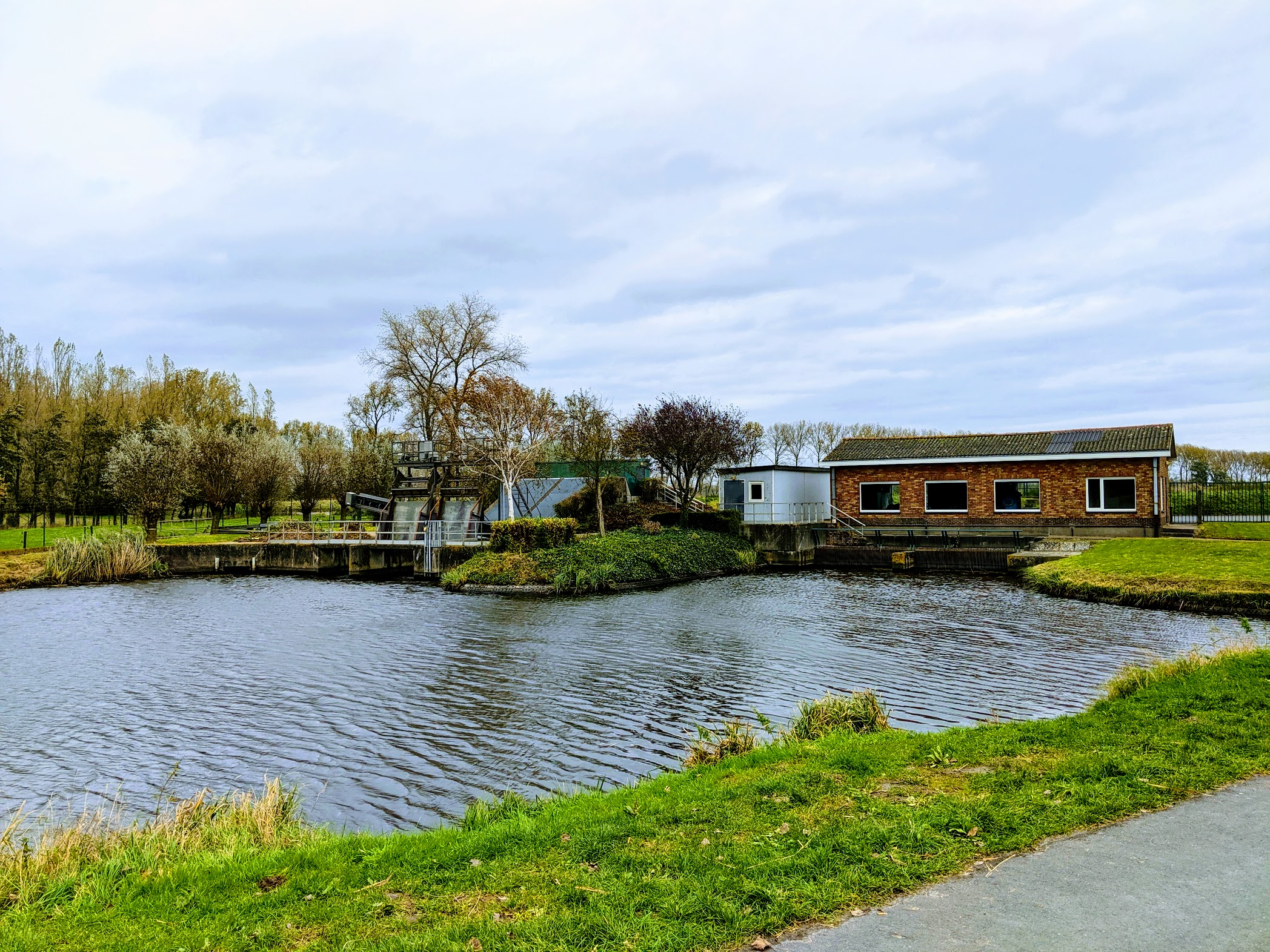 Pumping station 't Pomptje' on Groot Geleed at Gistel, Belgium. On the left the new screw pump station with driftwood and garbage skimmer, on the right the old turbine pump station which is being kept operational for emergencies.